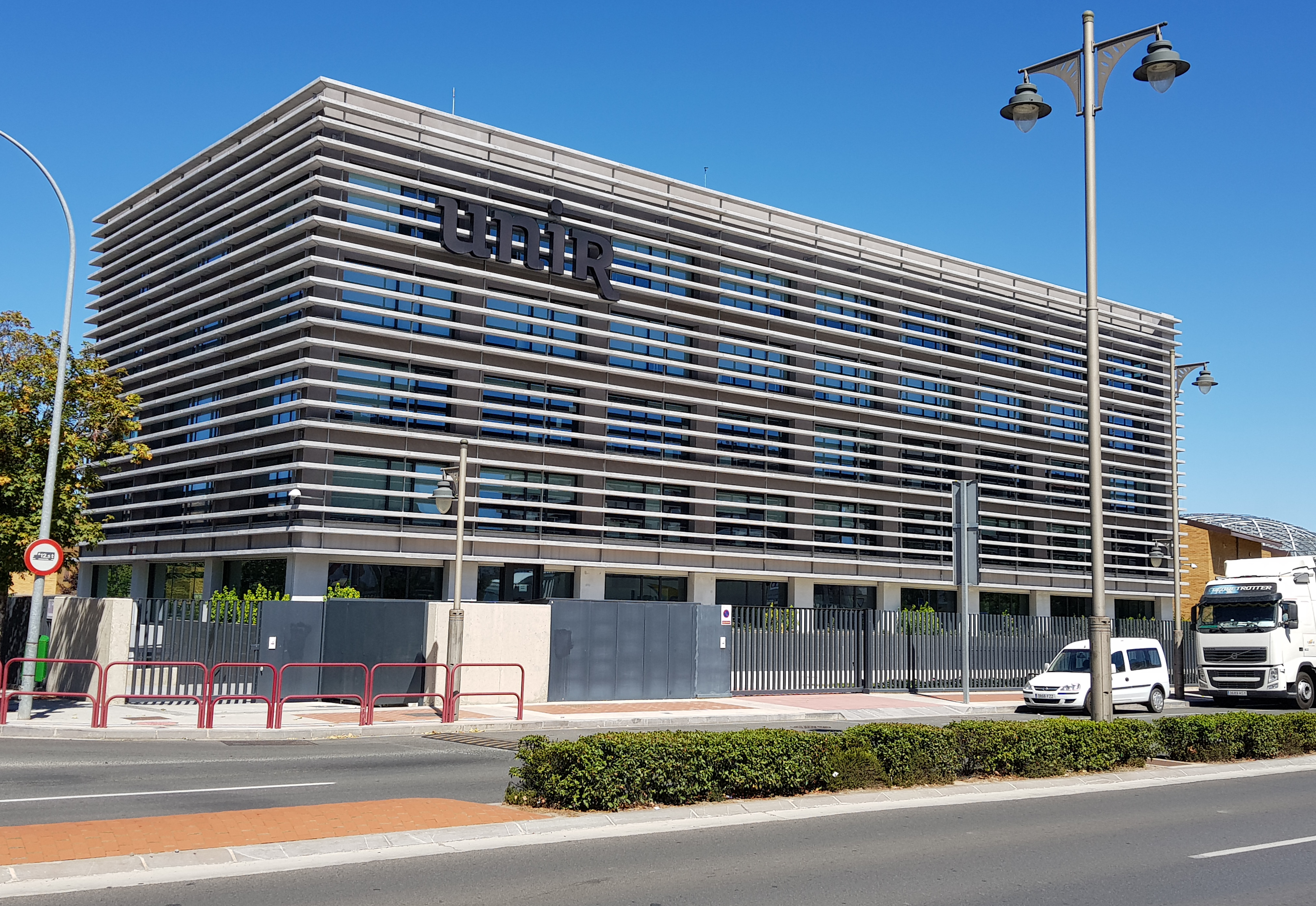 Headquarters of the Universidad Internacional de La Rioja in Logroño (Spain).